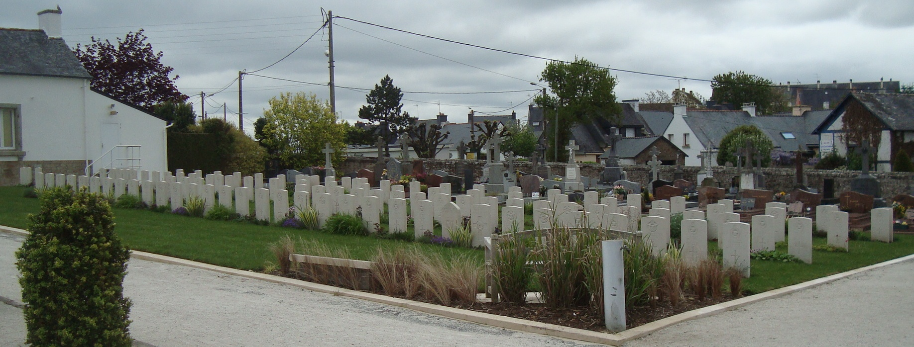 Gwidel, (Bro-Gwened, Mor-Bihan),Brittany, Commonwealth War Graves, WWII, Communal Cemetery